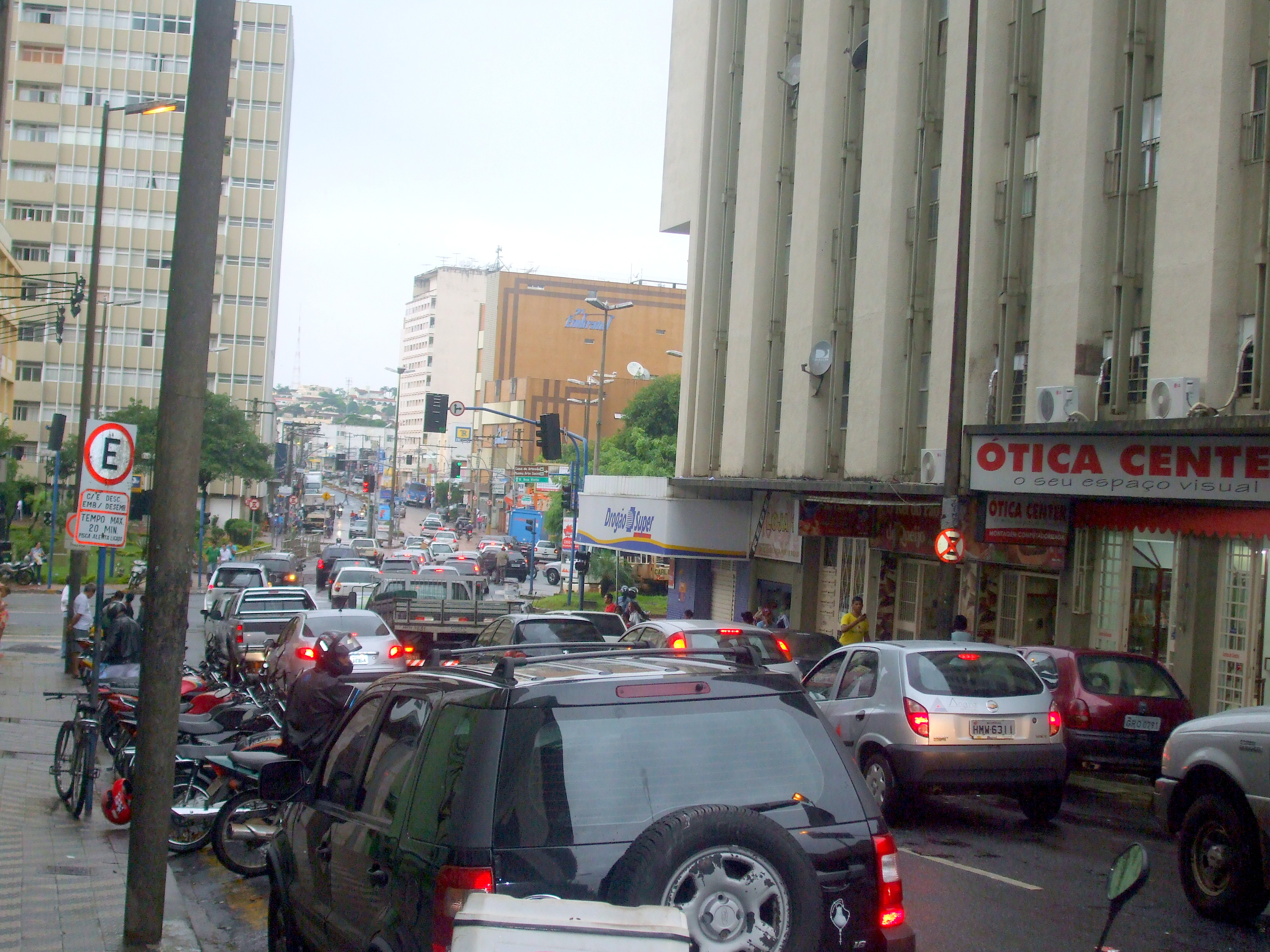 Centro da cidade